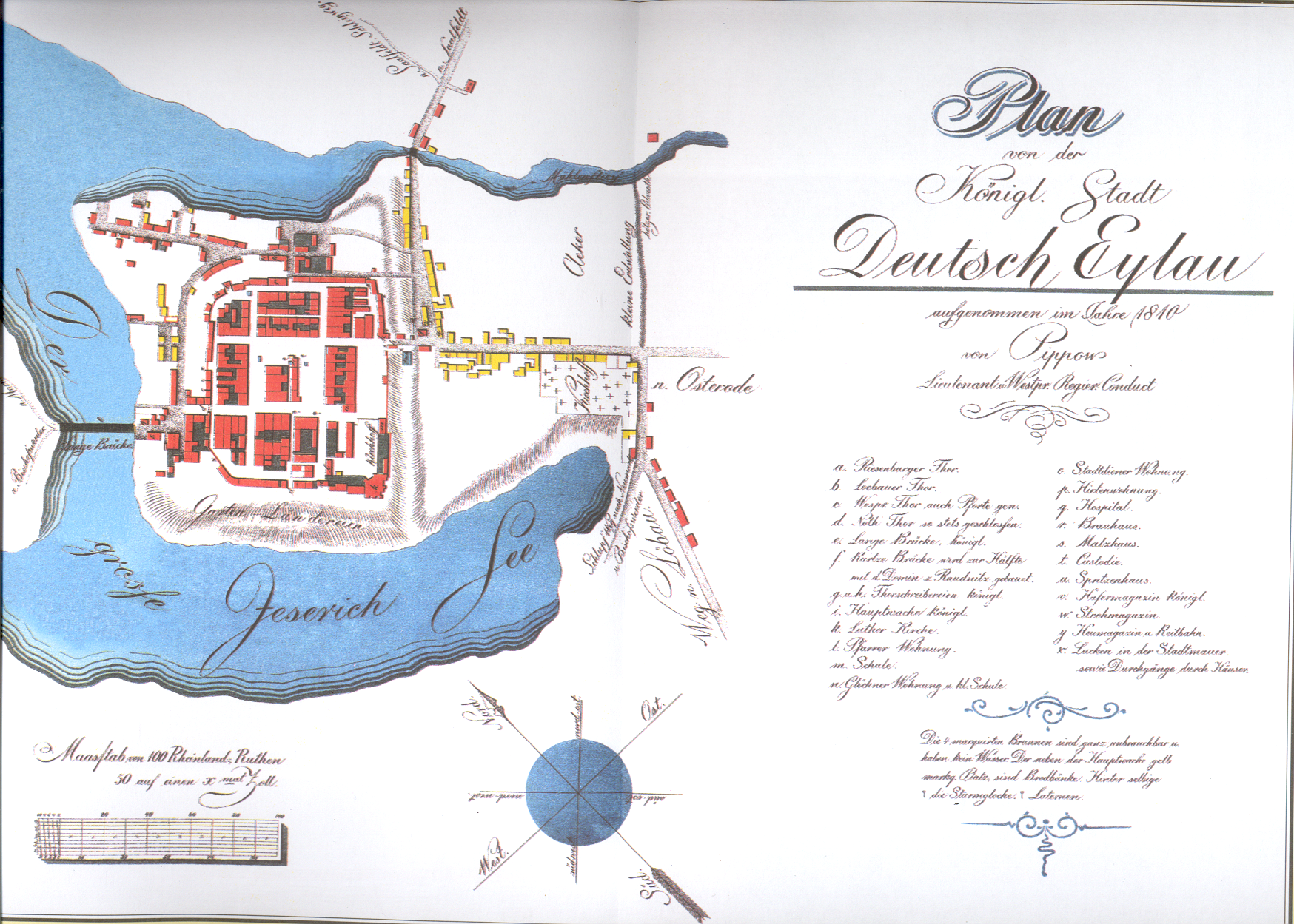 Map of the Royal Town of Deutsch Eylau, taken in the year 1810 Zeichenerklärung // Legend: (please translate into polish. thanks --Magadan (talk) 12:46, 26 September 2009 (UTC)) a. Riesenburger Tor // Riesenburg Gate b. Löbauer Tor // Löbau Gate c. Wespr___ (unlesbar) Tor auch Pforte genannt // Wespr___ (illegible) Gate also called wicket d. Noth Tor, stets geschlossen // Emergency Gate, always closed e. Lange Brücke, königlich // Long Bridge, royal f. Kurze Brücke, wird zur Hälfte mit der Domäne zu Raudnitz gebaut // Short Bridge, half of it built by Raudnitz demesne g. & k. Thorschreibereien königlich (= Torwächter und Zoll- bzw. Steuereinnehmer) i. Hauptwache, königlich // Main guard house, royal k. Lutherkirche // Luther church m. Schule // School n. Glöcknerwohnung und kleine Schule // Bell ringer's home, and small school o. Stadtdienerwohnung // town servant's home p. Hirtenwohnung // Shepherd's home q. Hospital r. Brauhaus // Brewery t. Custodie u. Spritzenhaus // house for firefighting equipment v. Königliches Hafermagazin // royal warehouse to store oats w. Strohmagazin // warehouse to store straw y. Heumagazin und Reitbahn // warehouse to store hay, and hippodrome x. Lücken in der Stadtmauer sowie Durchgänge durch Häuser // gaps in town wall and passages through houses.